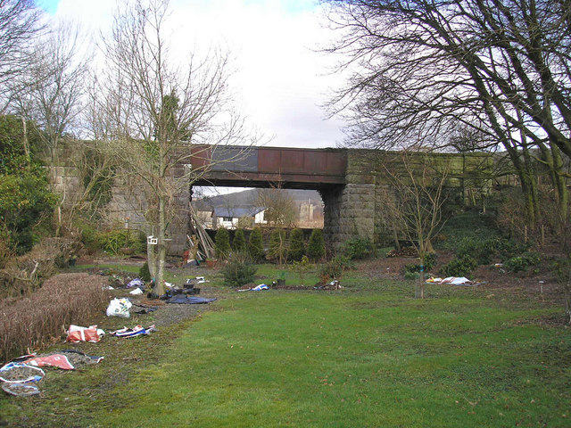 Railway at Barbon The trackbed of the disused Clapham to Tebay line at Barbon. Barbon station and goods yard were at the other side of this bridge. The plastic bags are growbags, fertiliser bags etc.